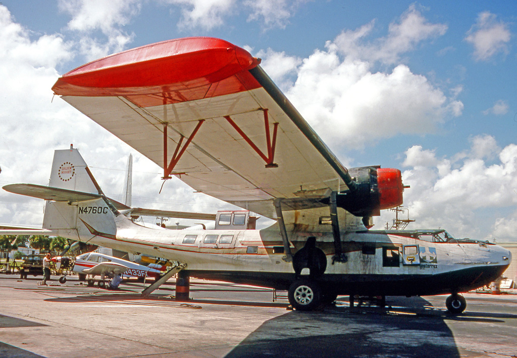 Consolidated PBY Catalina N4760C rebuilt by Steward-Davis Inc to Super Cat standard in the late 1950s